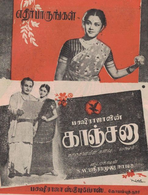 Poster for the 1951 South Indian Tamil film Kanchana